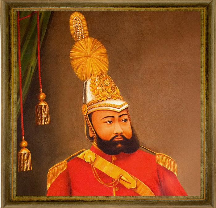 1885 Laxmilal Mehta - Military commander and Hakim Jahajpur